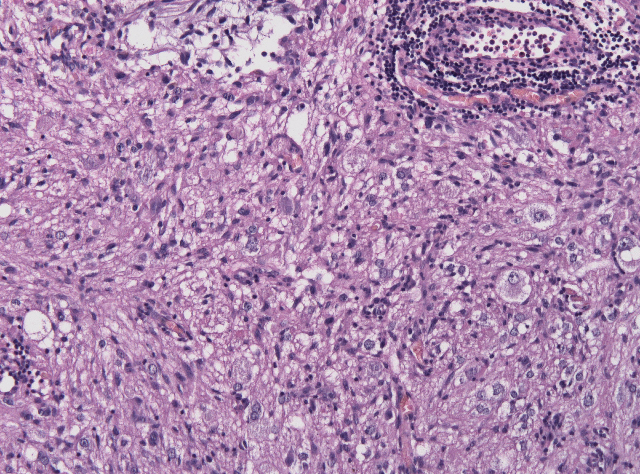 Pleomorphic xanthoastrocytoma, HE stain x100 magnification